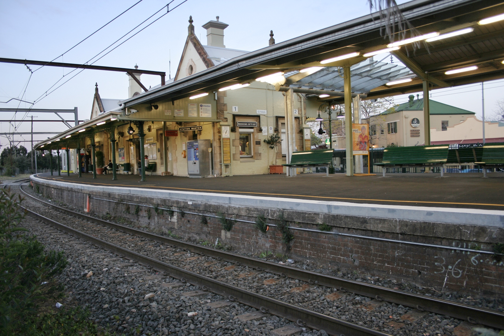 Springwood Station, NSW, Australia